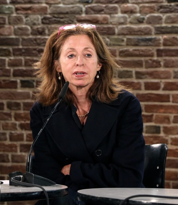 Professor Sabine Rollberg at a discussion at the Academy of the arts Berlin